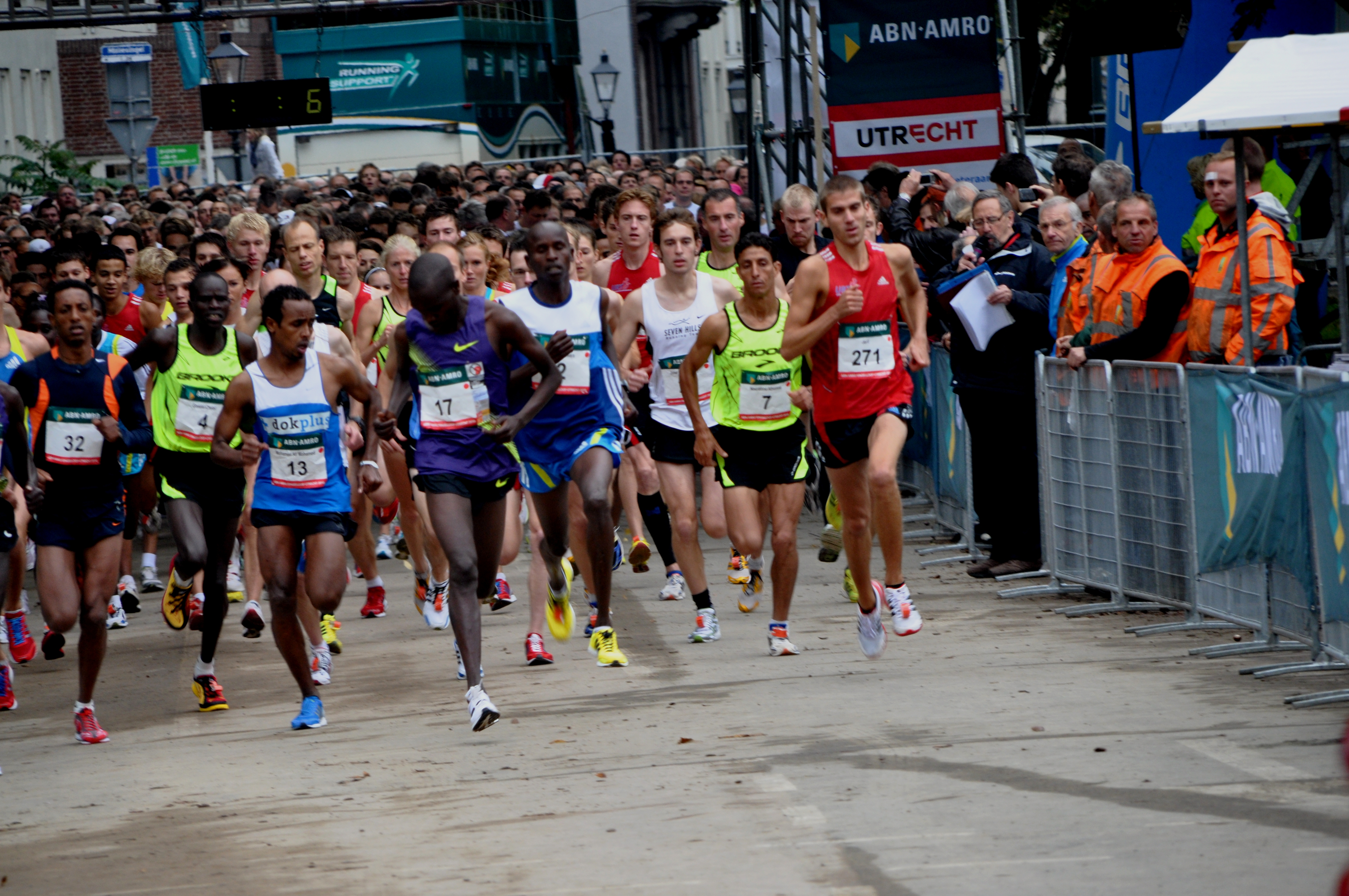 Start of the 2010 Utrecht Singelloop - among those pictured are Ezekiel Chebii (number 4), Mohamed Ali Mohamed (13), Boniface Kiriu (17), Nourdinne Athamna (7) and Jorit van Malsen (271).